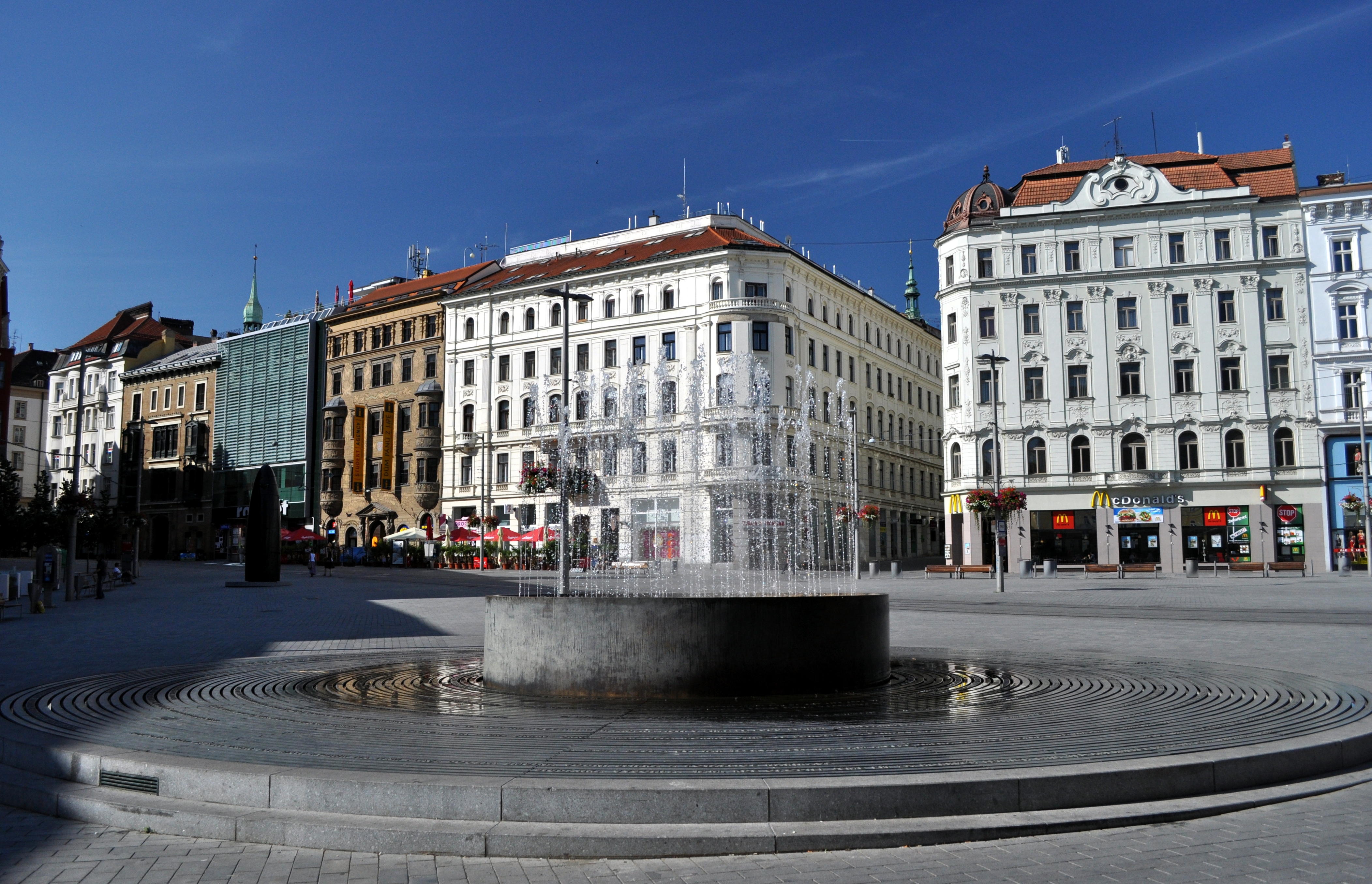 Liberty square in Brno, Moravia, Czech republic